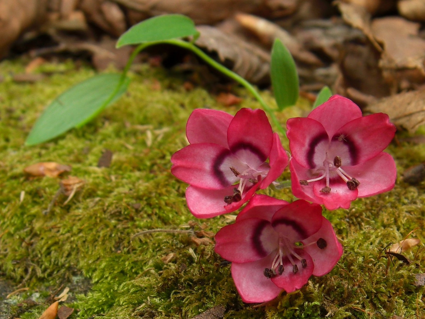 Bomarea salsilla (L.) Herb. – 20081128.11 – Reserva Nacional Los Ruiles, Chile – This lily grows as a twining vine in shaded coastal forests of central Chile. It is actually very slightly bilateral, especially noticeable in the stamens. It is in the Alstroemeriaceae family.